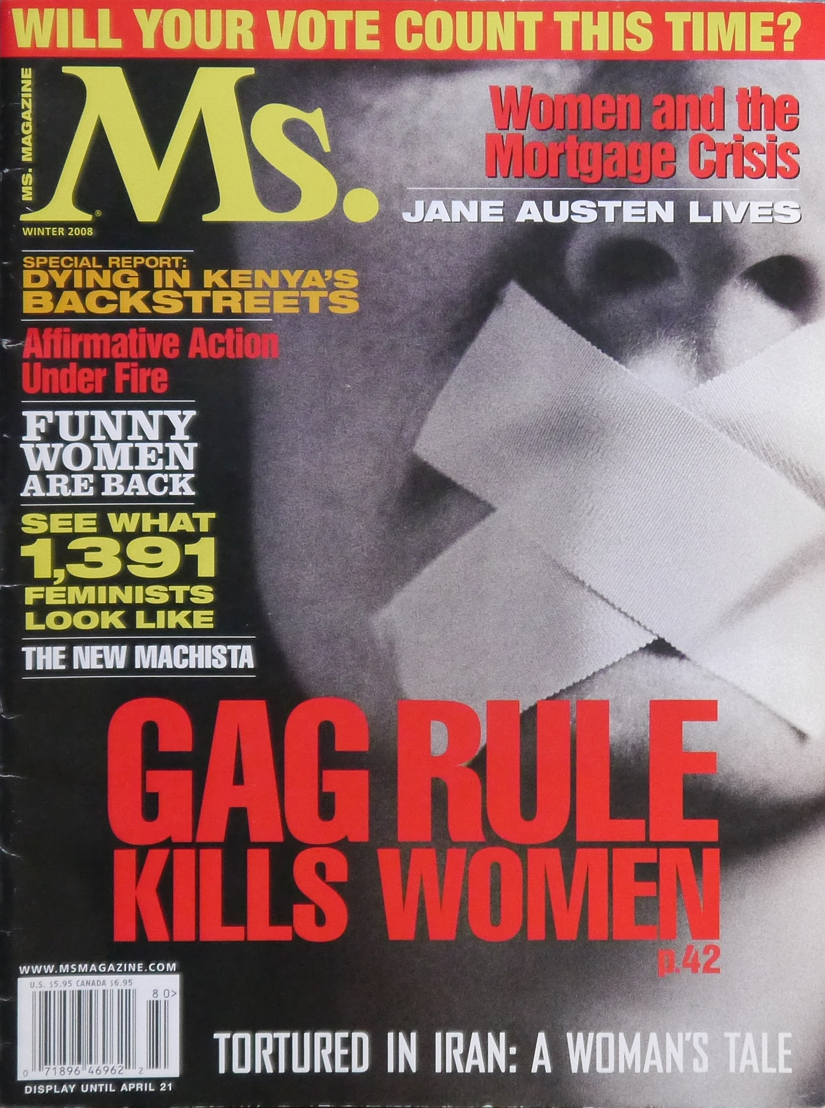 Ms. magazine, Winter 2008